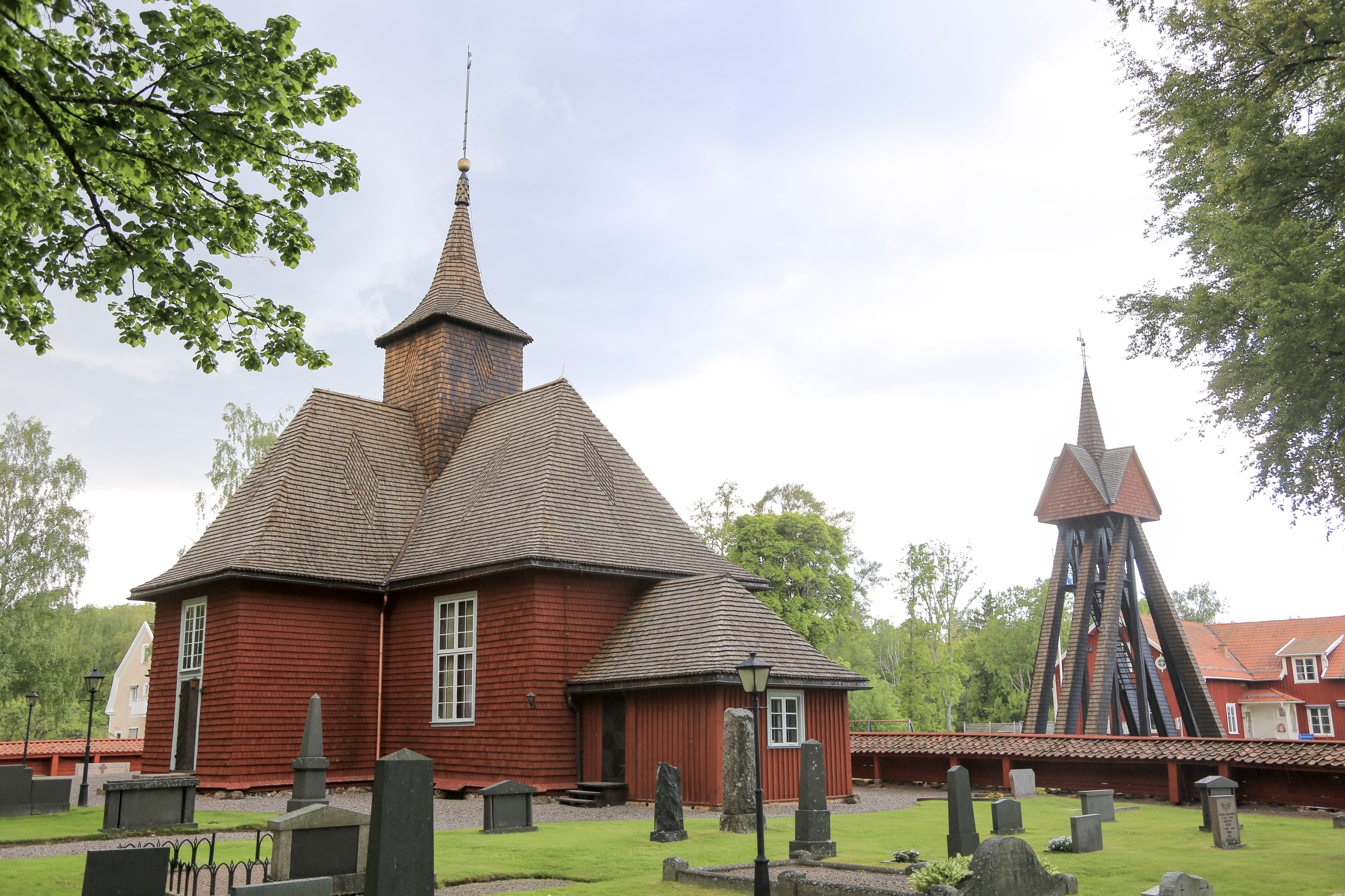 Brandstorps church.